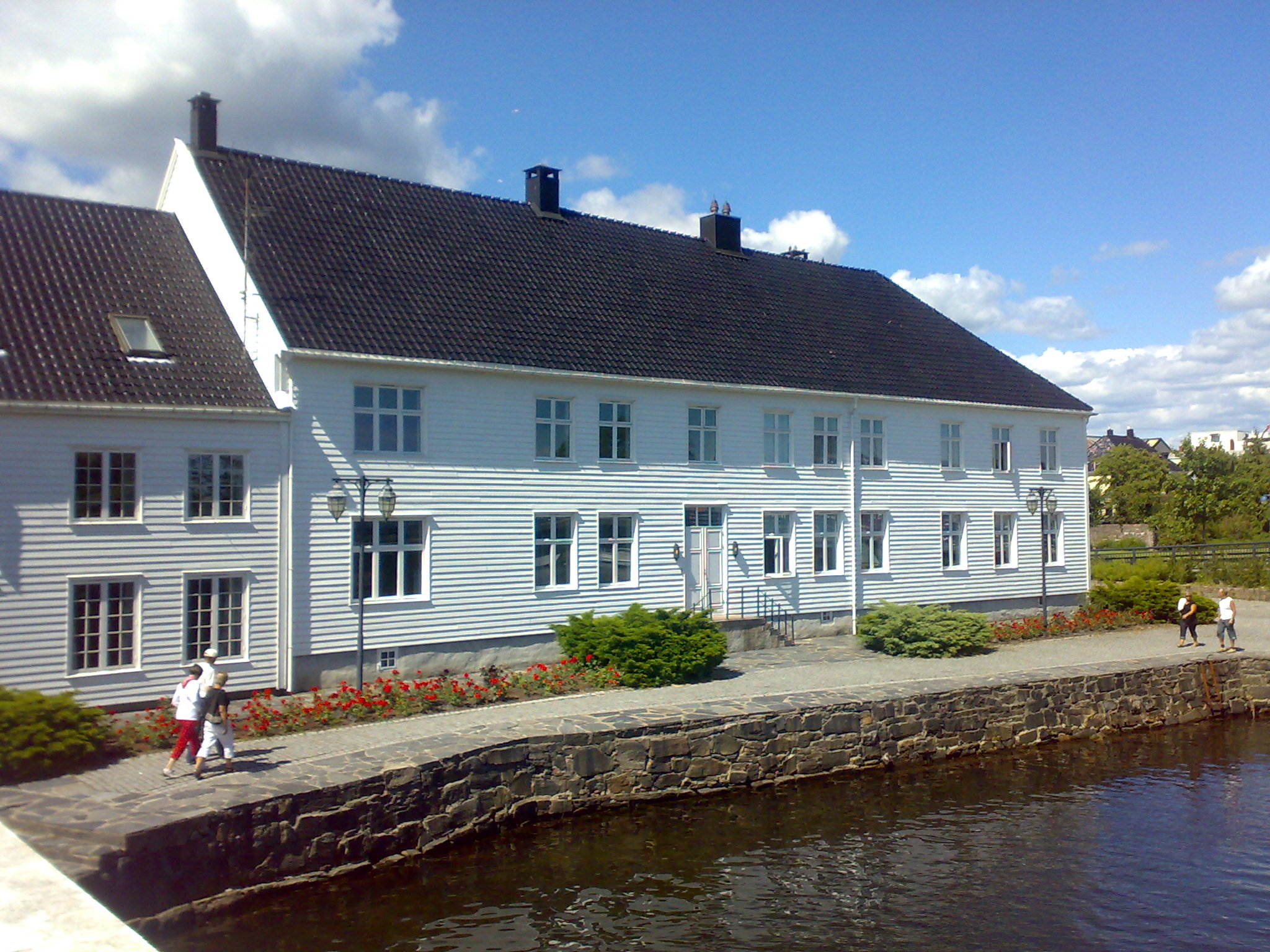 Gravane, old pilot station, Kristiansand, Norway